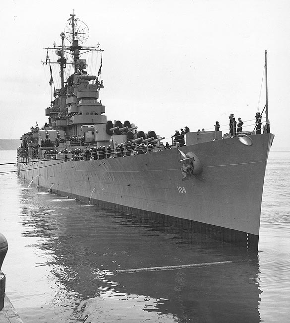 USS Atlanta (CL-104) leaves Seattle, Washington, for a Naval Reserve training cruise to Alaska, 27 June 1948. Original caption: “Photo # NH 98879 USS Atlanta departing Seattle, Washington, 27 June 1948” — removed caption